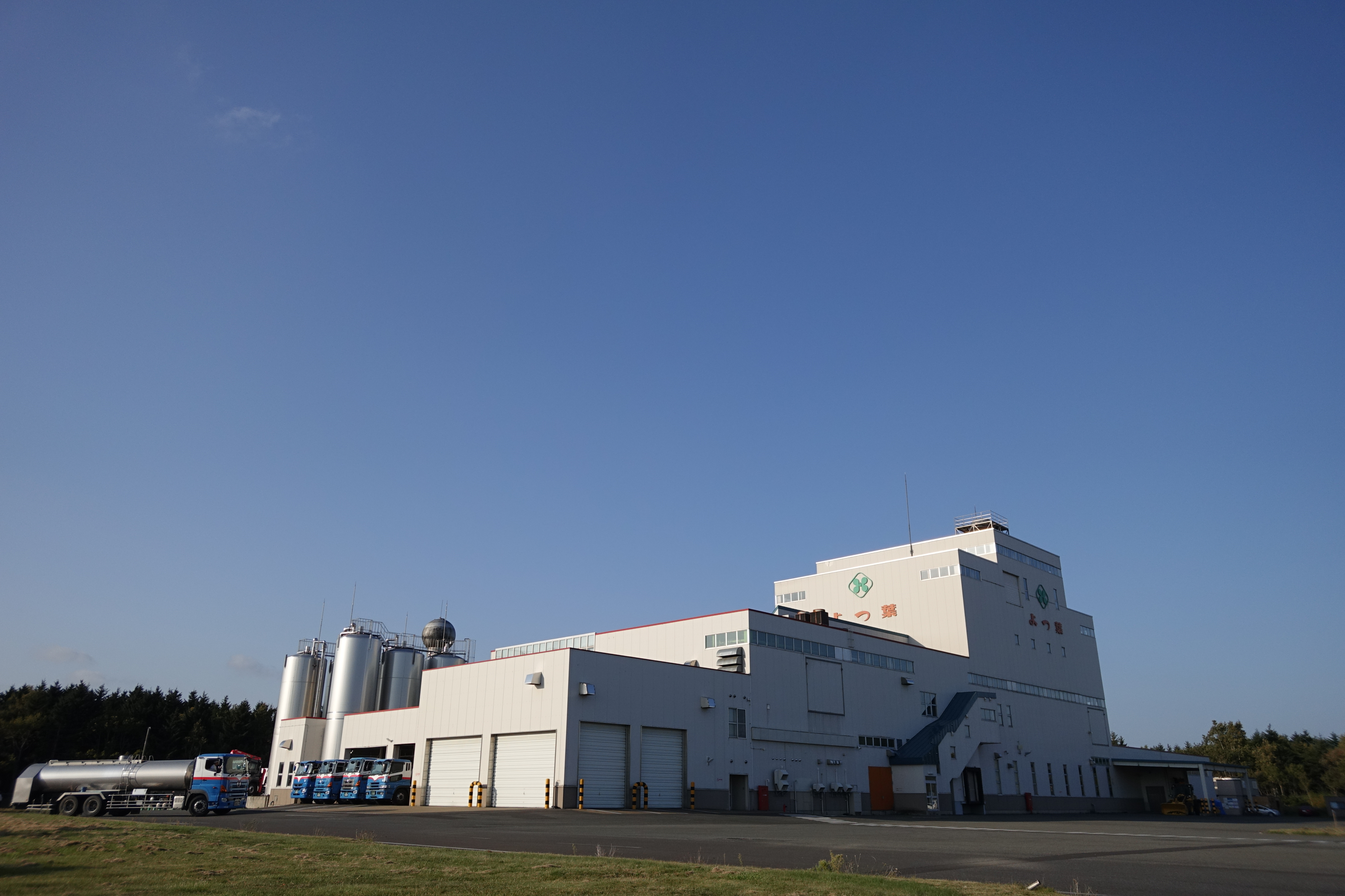 Yotsuba Milk Products Soya Factory in Hamatonbetsu, Hokkaido, Japan